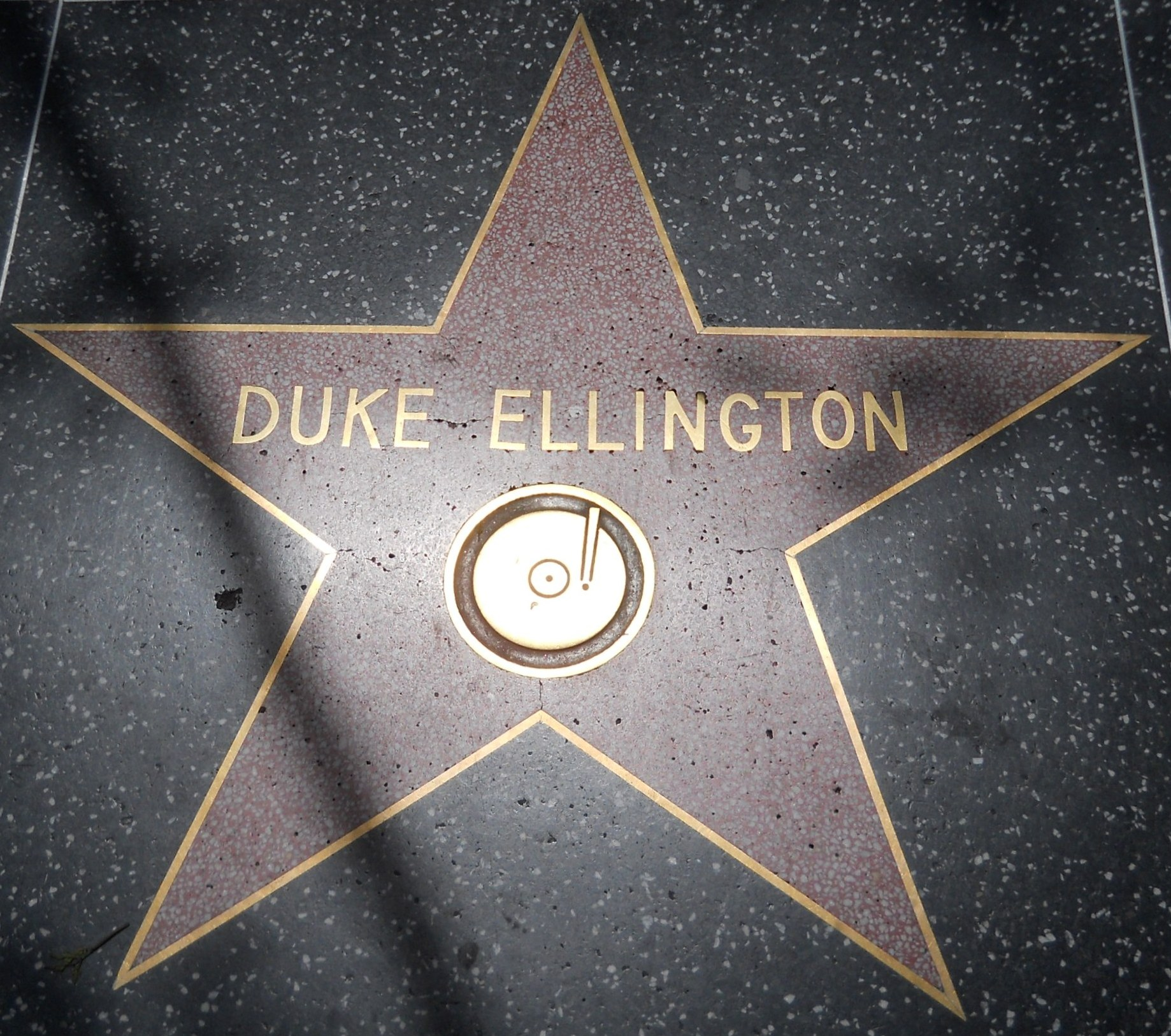 Musician Duke Ellington's star on the Hollywood Walk of Fame